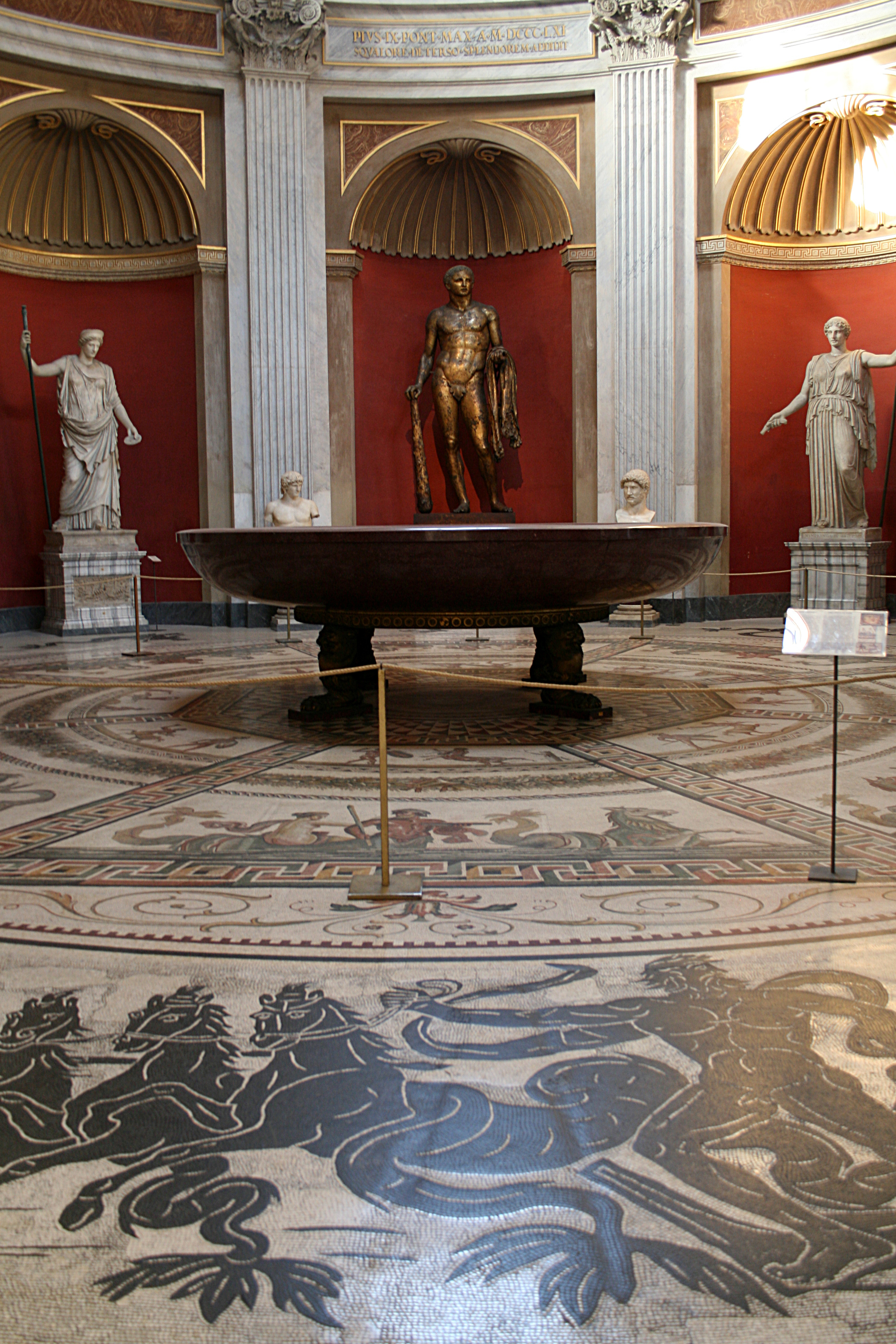 Roman mosaic found in the thermae of Otricoli, big porphyr labrum, found in the Baths of Titus and gilded bronze statue of Hercules (late second century) - Sala Rotonda of the Pio Clementino Museum (Vatican) in Rome.